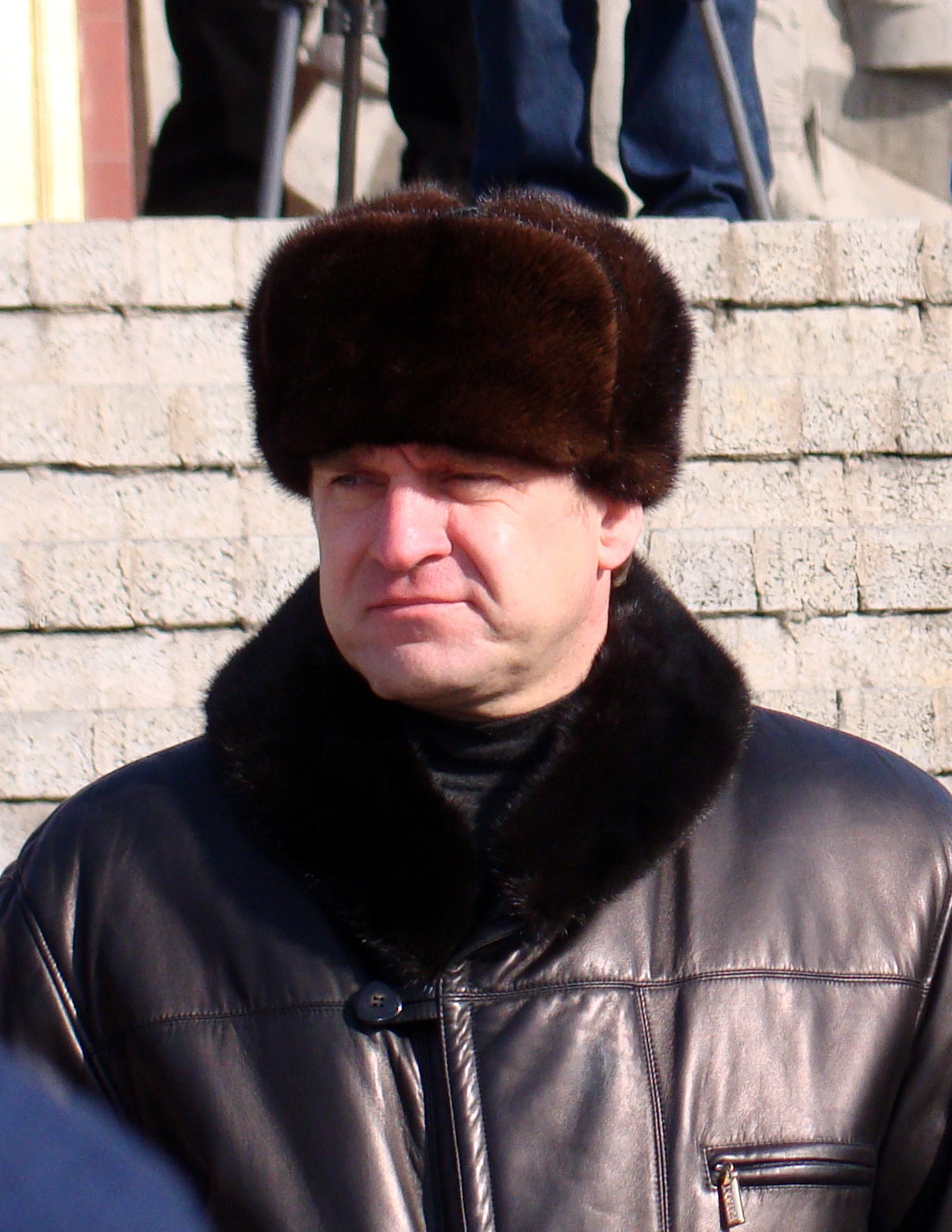 Serguei Dar'kin, Governor of the Primorye Region (Russia)